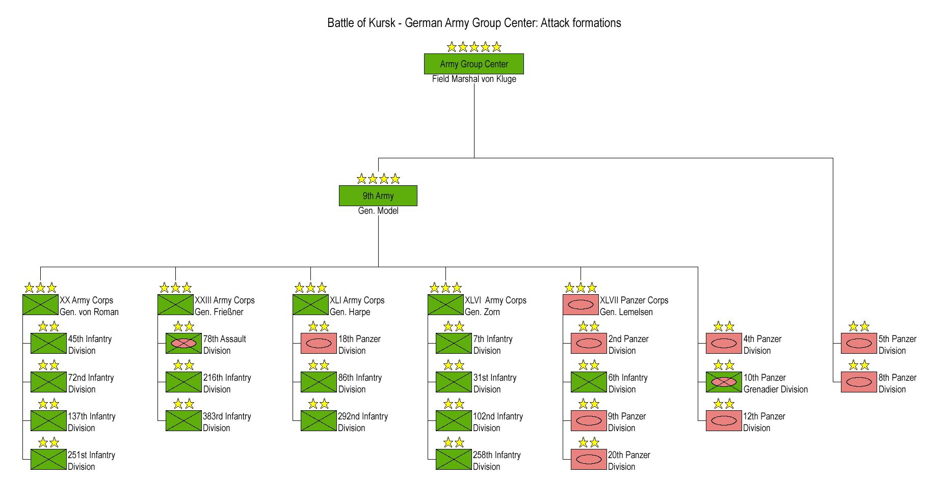 World War II - Battle of Kursk 1943 - German Army Group Center - Order of Battle Diagram